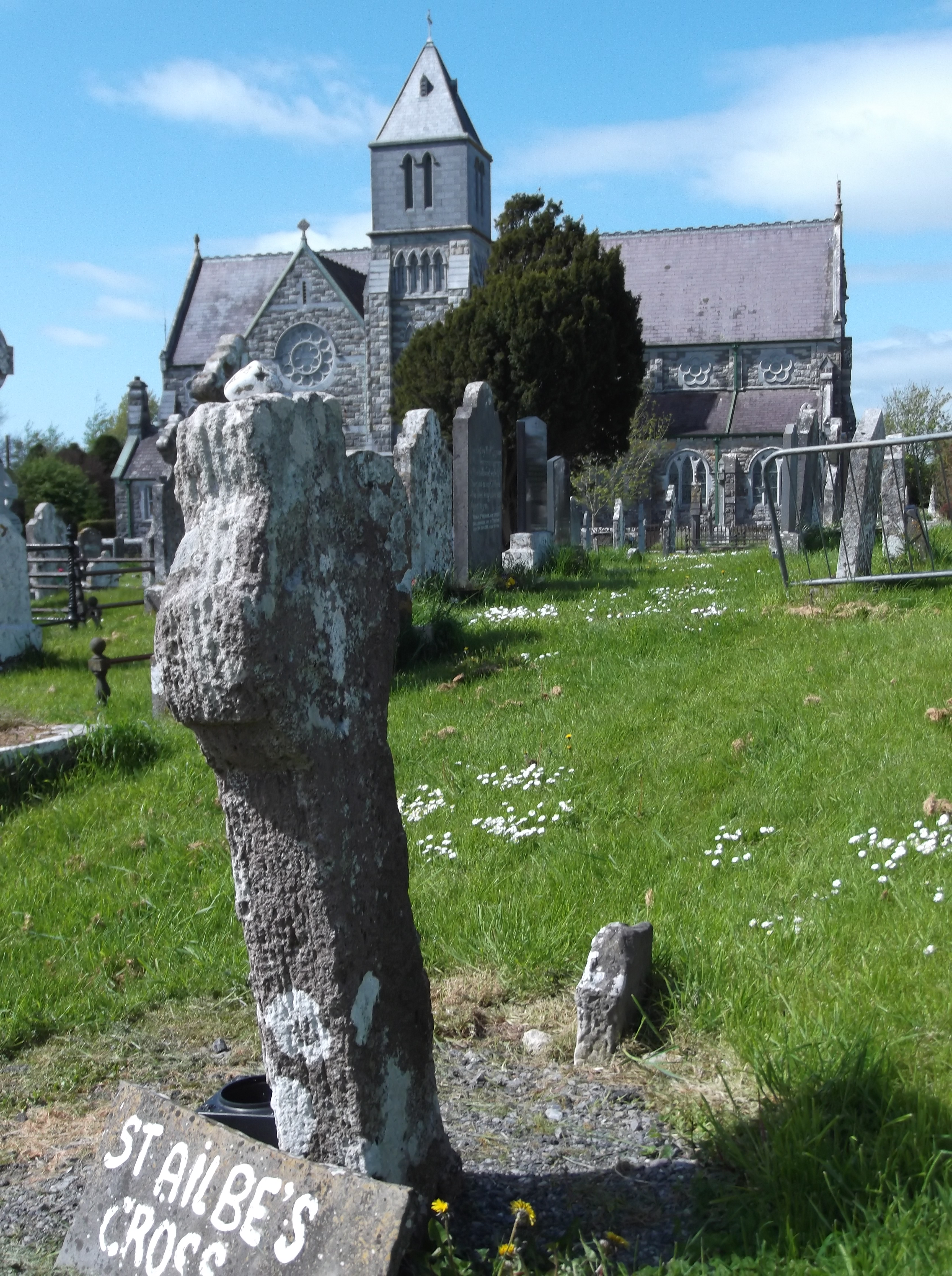 Photograph of St Ailbe's Cross, and Church of St Ailbe, Emly, Co. Tipperary, on the site of an earlier cathedral and monastery